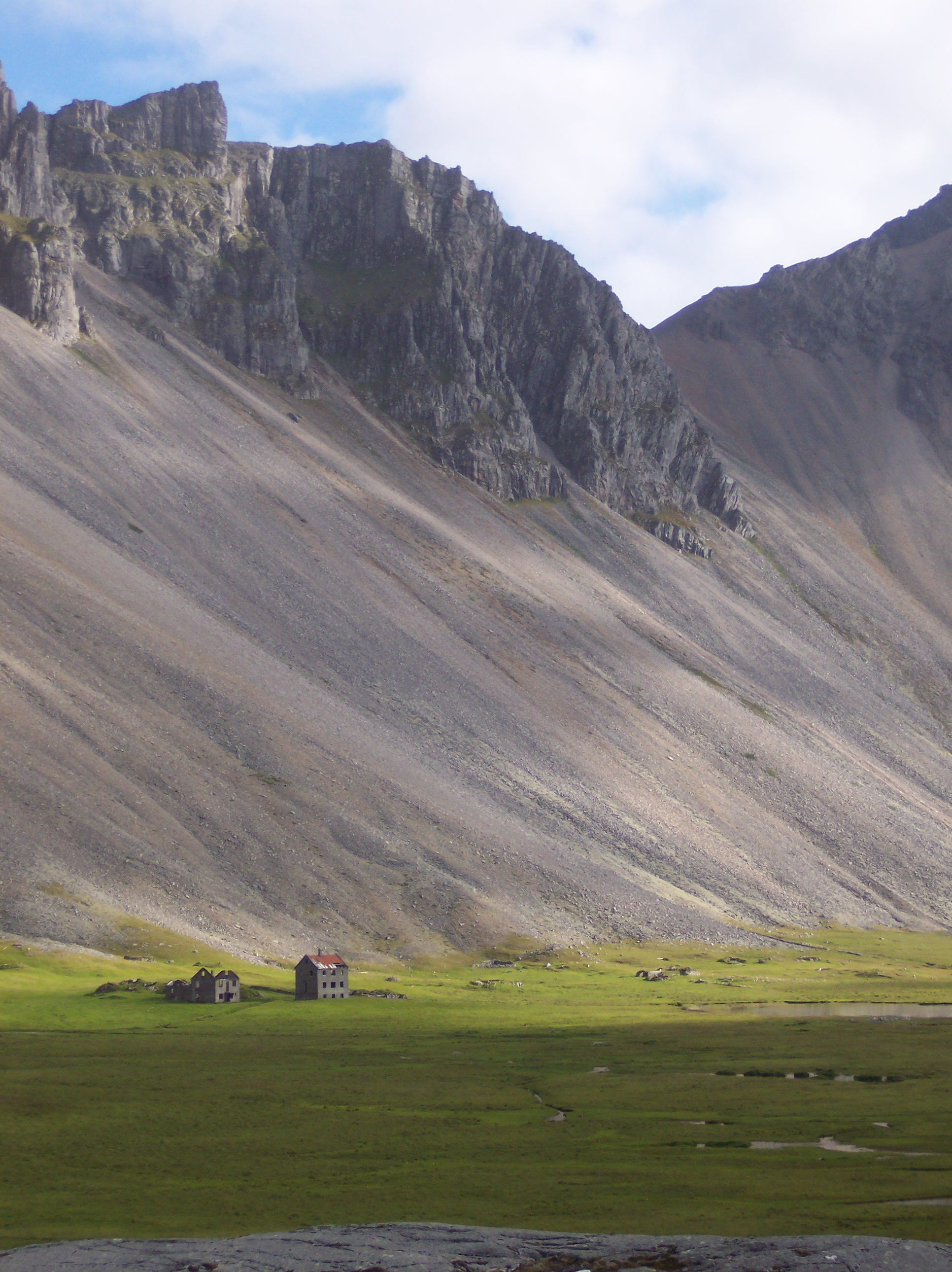 Vestrahorn í Hornafirði, Iceland.